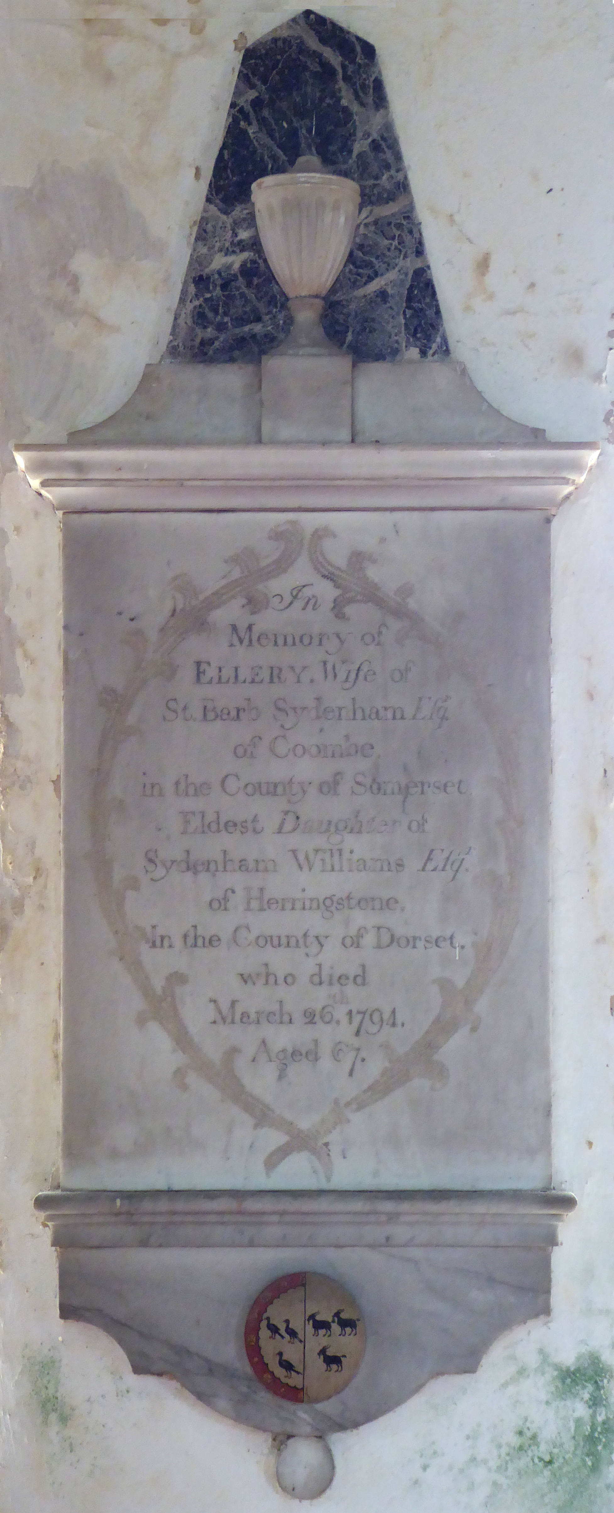 Mural monument in Broadhembury Church, Devon, to Ellery Williams (1727-1794), eldest daughter of Sydenham Williams (1701-1757) of Herringston House in the parish of Winterborne Herringston in Dorset (Governor of Portland Castle and Sheriff of Dorset in 1740-1 (Source: pedigree of "Williams of Herringston" in Burke's Genealogical and Heraldic History of the Landed Gentry, 15th Edition, ed. Pirie-Gordon, H., London, 1937, pp. 2443-4)), wife of St Barbe Sydenham (died 1757) of Kerswell Priory in the parish of Broadhembury, Devon, and of Coombe in the parish of Dulverton, Somerset. Inscribed: "In Memory of Ellery, Wife of St Barb Sydenham Esq of Combe in the County of Somerset, eldest daughter of Sydenham Williams Esqr of Herringstone in the County of Dorset, who died March 26th 1794 aged 67". Below are shown in a circular escutcheon the following arms: Argent, three Cornish choughs proper a bordure engrailed gules charged with crosses patée or and bezants alternately (Williams) impaling Argent, three rams passant guardant sable (Sydenham, with the rams shown incorrectly as goats). The arms are thus shown incorrectly, as Sydenham should impale Williams.